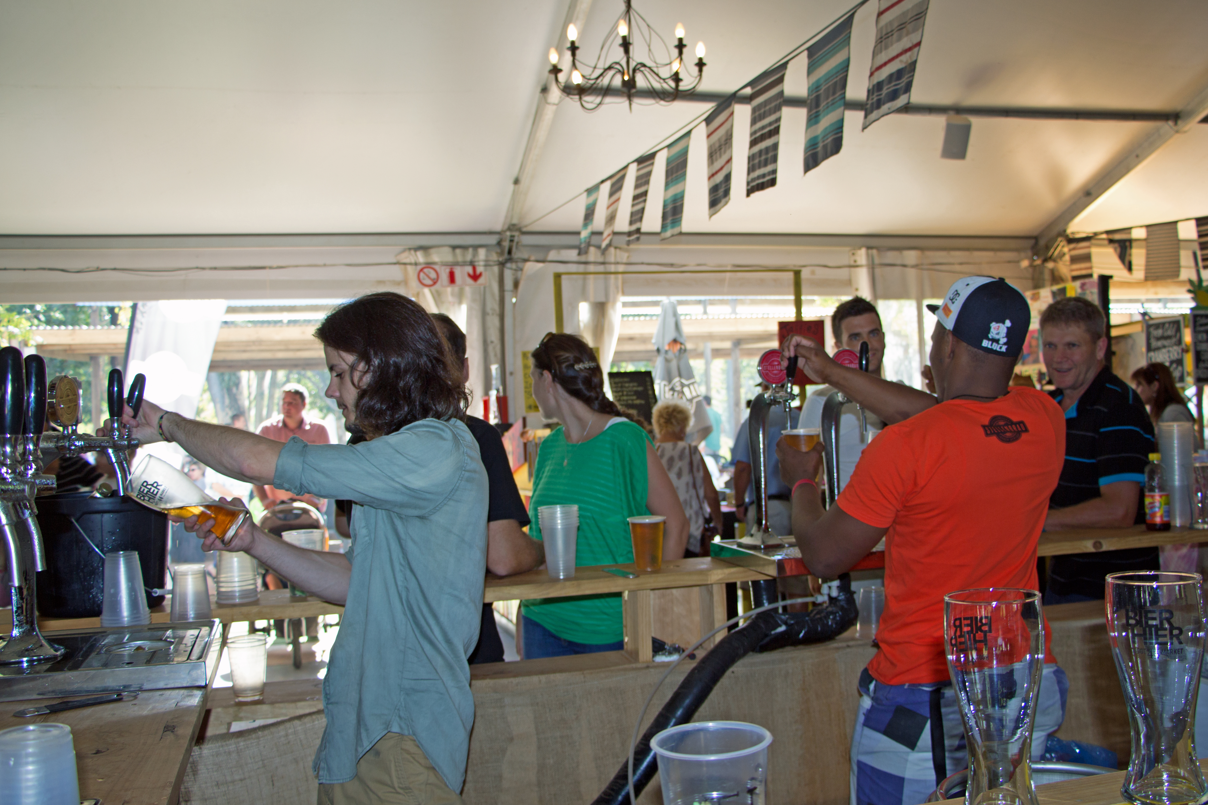 Bier Hier craft beer on tap stall, Root44 Market, Stellenbosch, South Africa